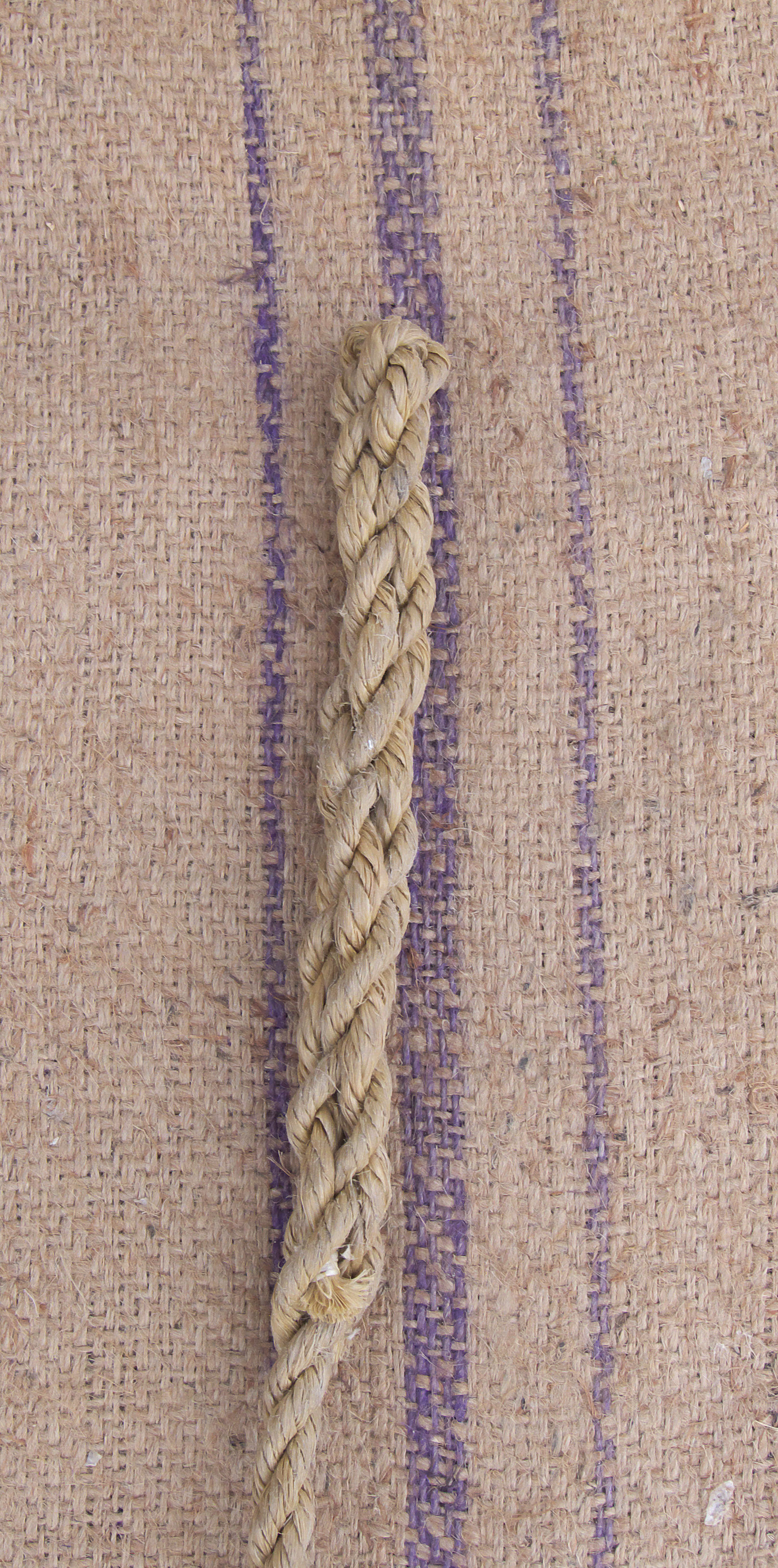 End splice